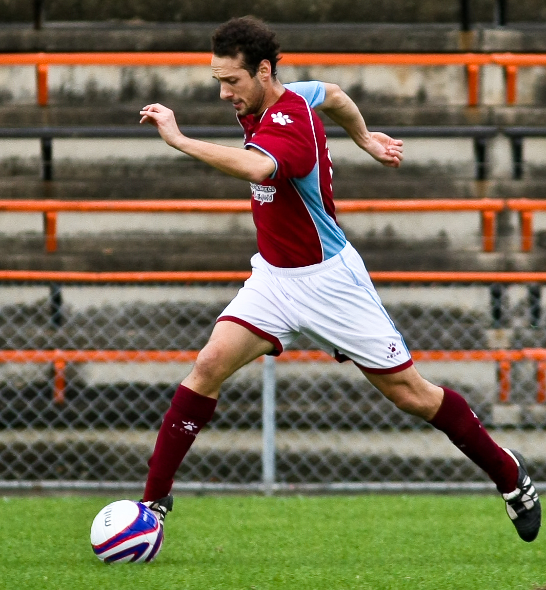 Franco Parisi playing for the Sydney Tigers against Sydney Olympic in the NSW Premier League.